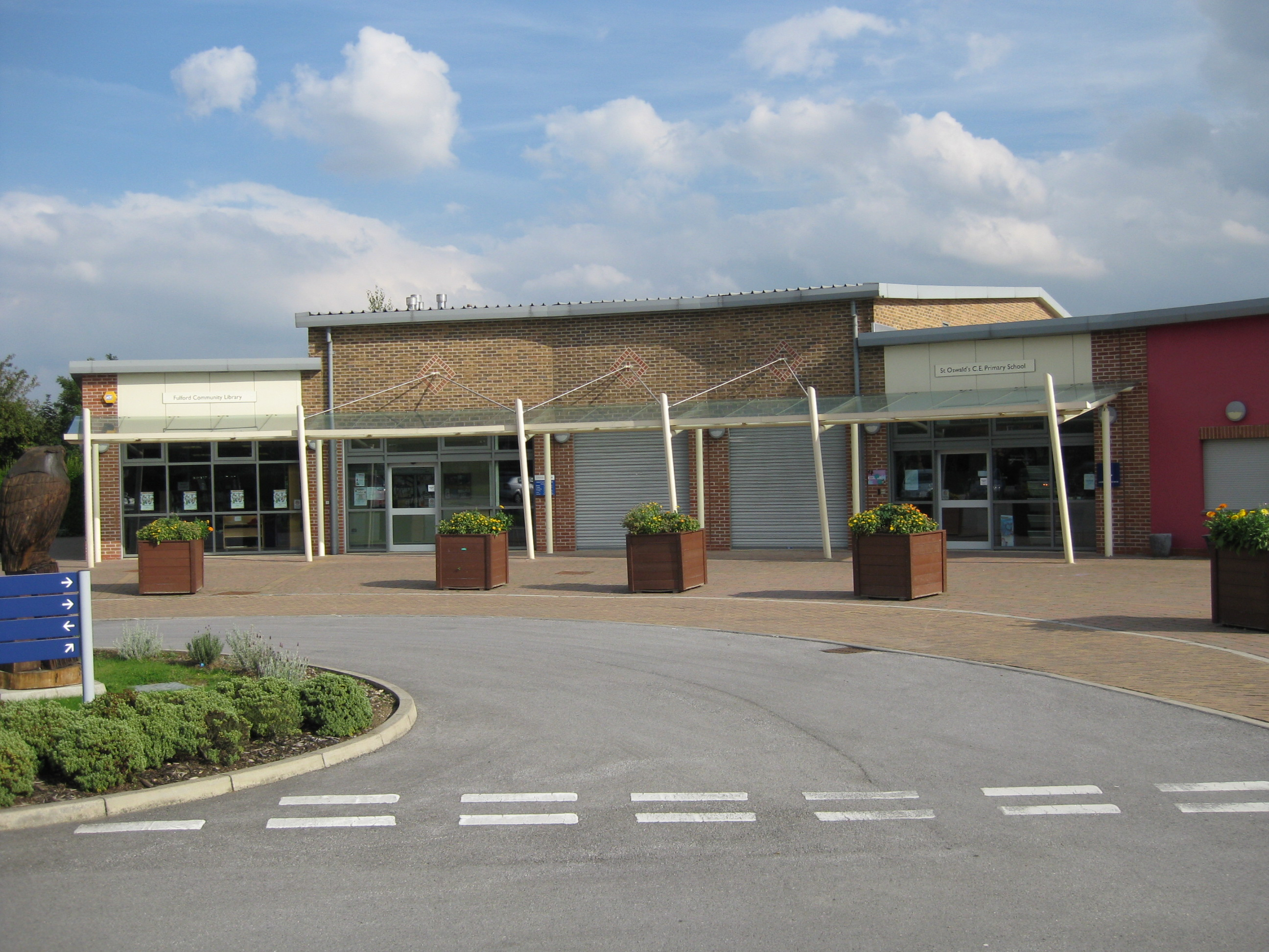 St Oswald's Primary School, Heslington Lane, Fulford YO10 4LX